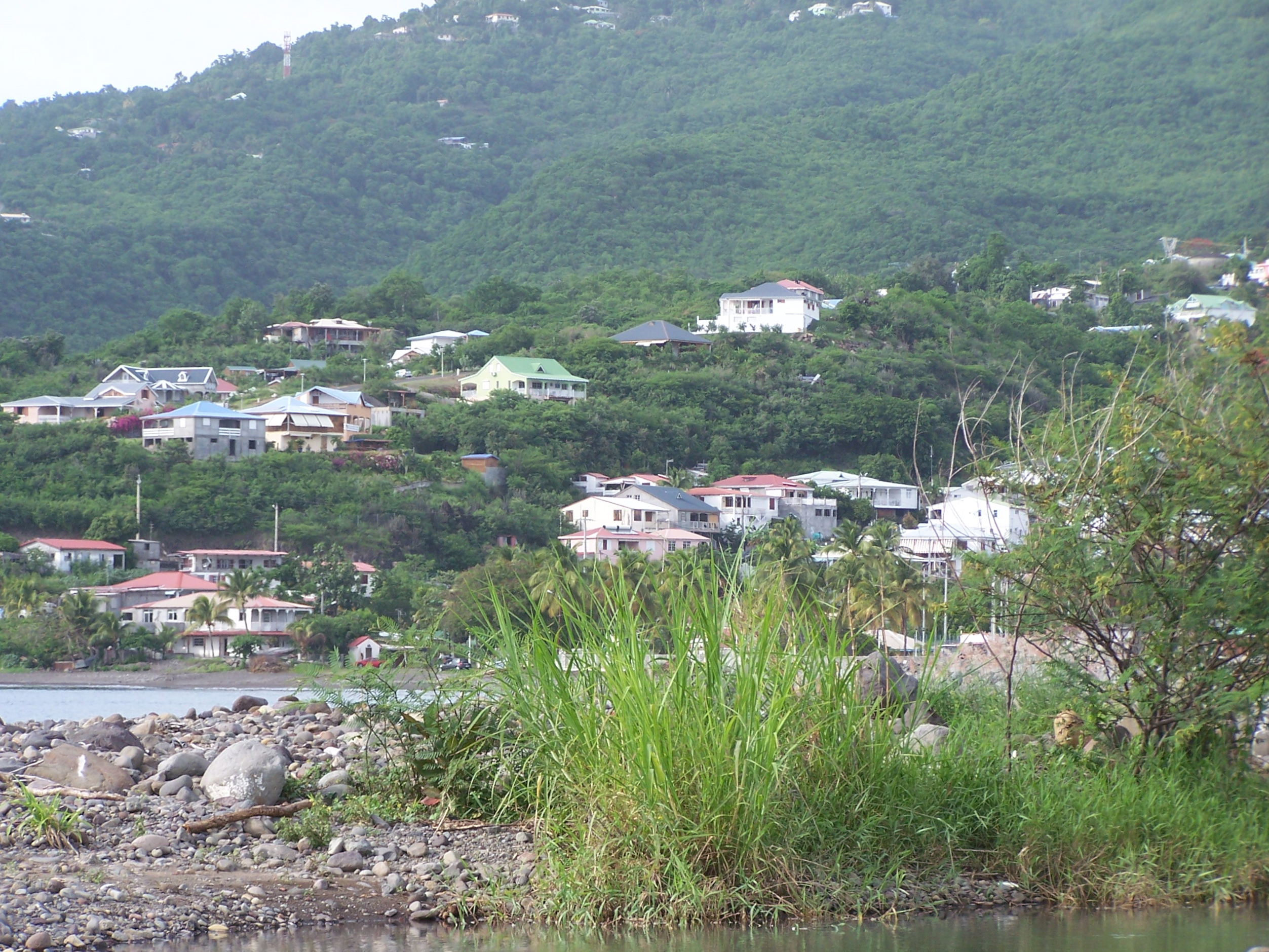 Vue de Vieux-Habitants, quartiers nord au-delà de l'embouchure de la Grande Rivière des Vieux-Habitants